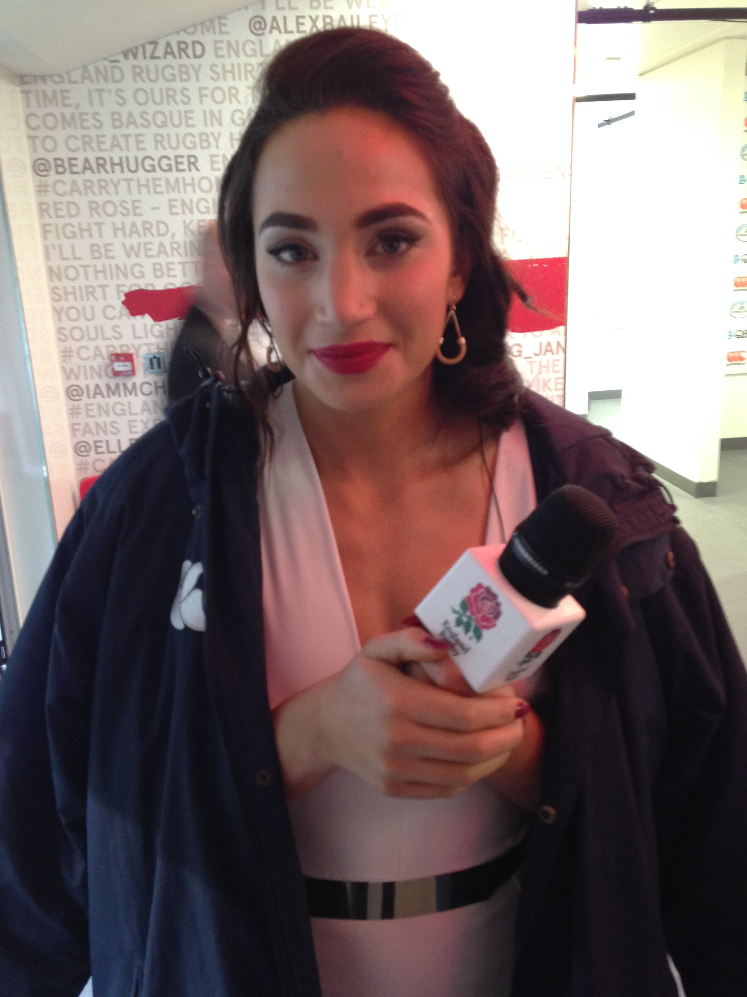 Laura Wright in the tunnel before performing the National Anthem at Twickenham